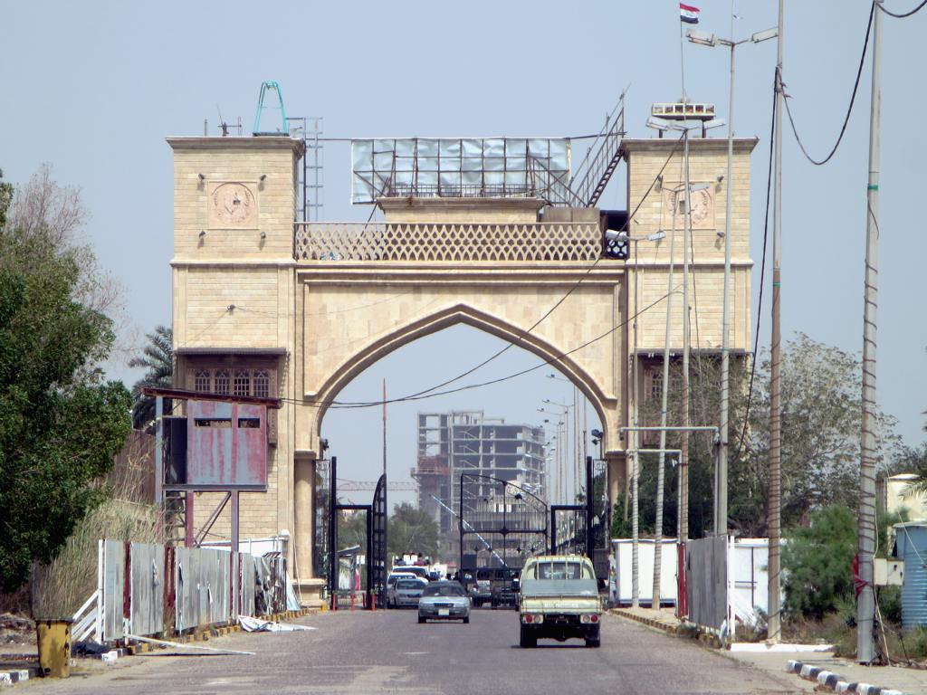 Inter Basra City